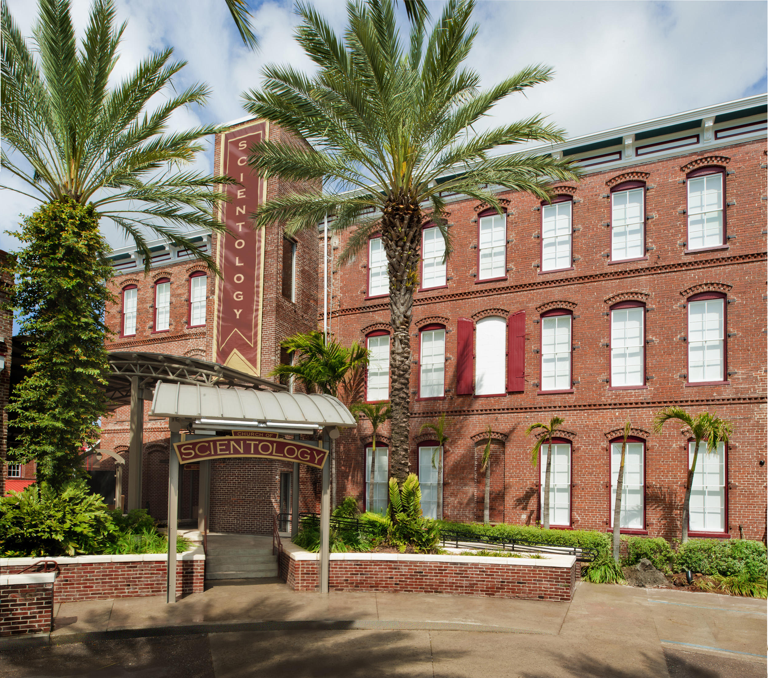 Church of Scientology Tampa. Tampa’s original cigar factory now serves as a home for the Church of Scientology. 2011